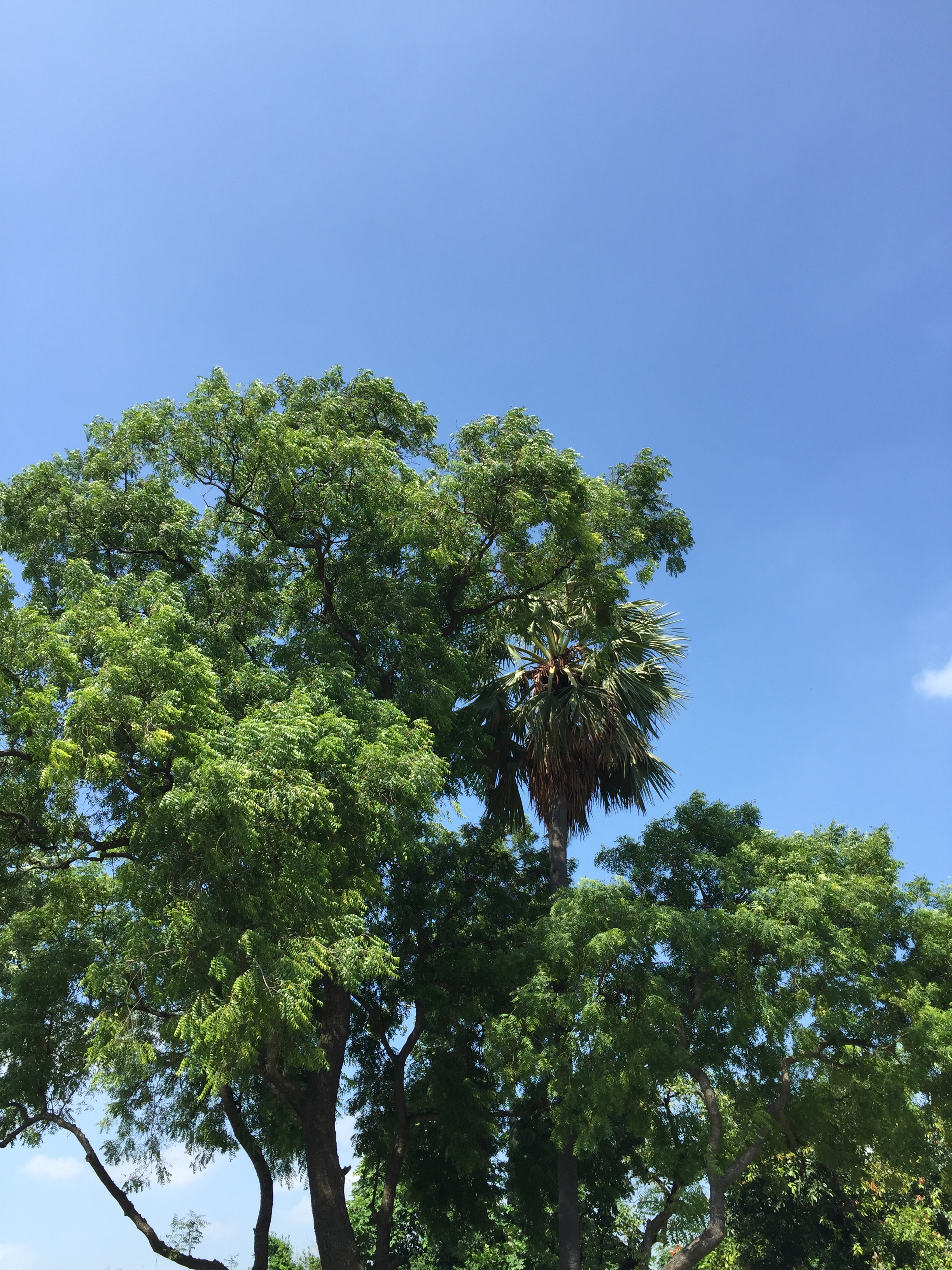 The picture is captured in a village named Chhapra Magarbi of Uttar Pradesh, India